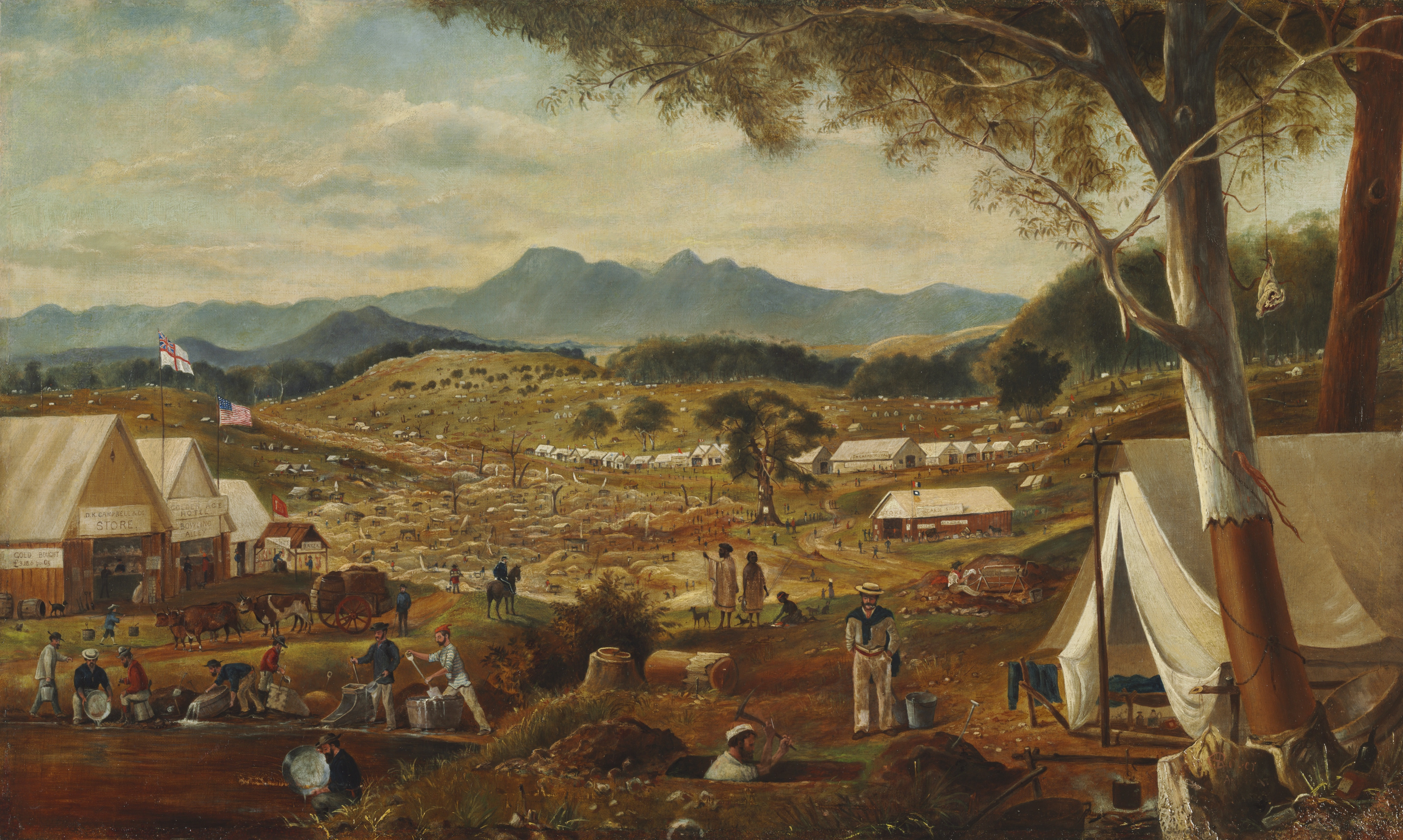 Gold diggings, Ararat, c.1858, by Edwin Roper Loftus Stocqueler, oil painting, presented by Sir William Dixson, 1929, State Library of New South Wales DG 15